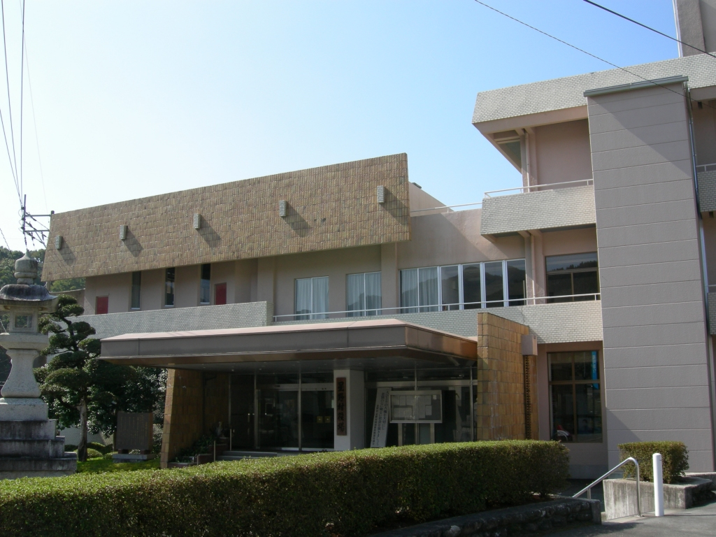 Yame city office Hoshino branch (Former Hoshino Village Office) in Fukuoka Prefecture, Japan